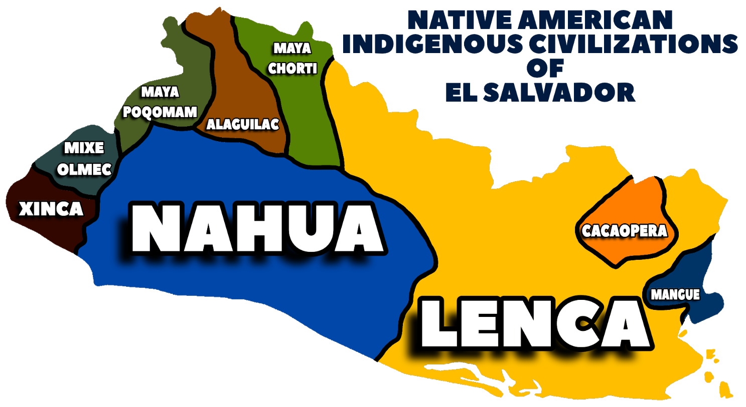 Map of nine Native American indigenous groups of El Salvador in Central America. Lenca, Cacaopera, Maya Poqomam, Maya Chorti, Xinca, Alaguilac, Mixe, Nahua Pipil, Nahua Mangue